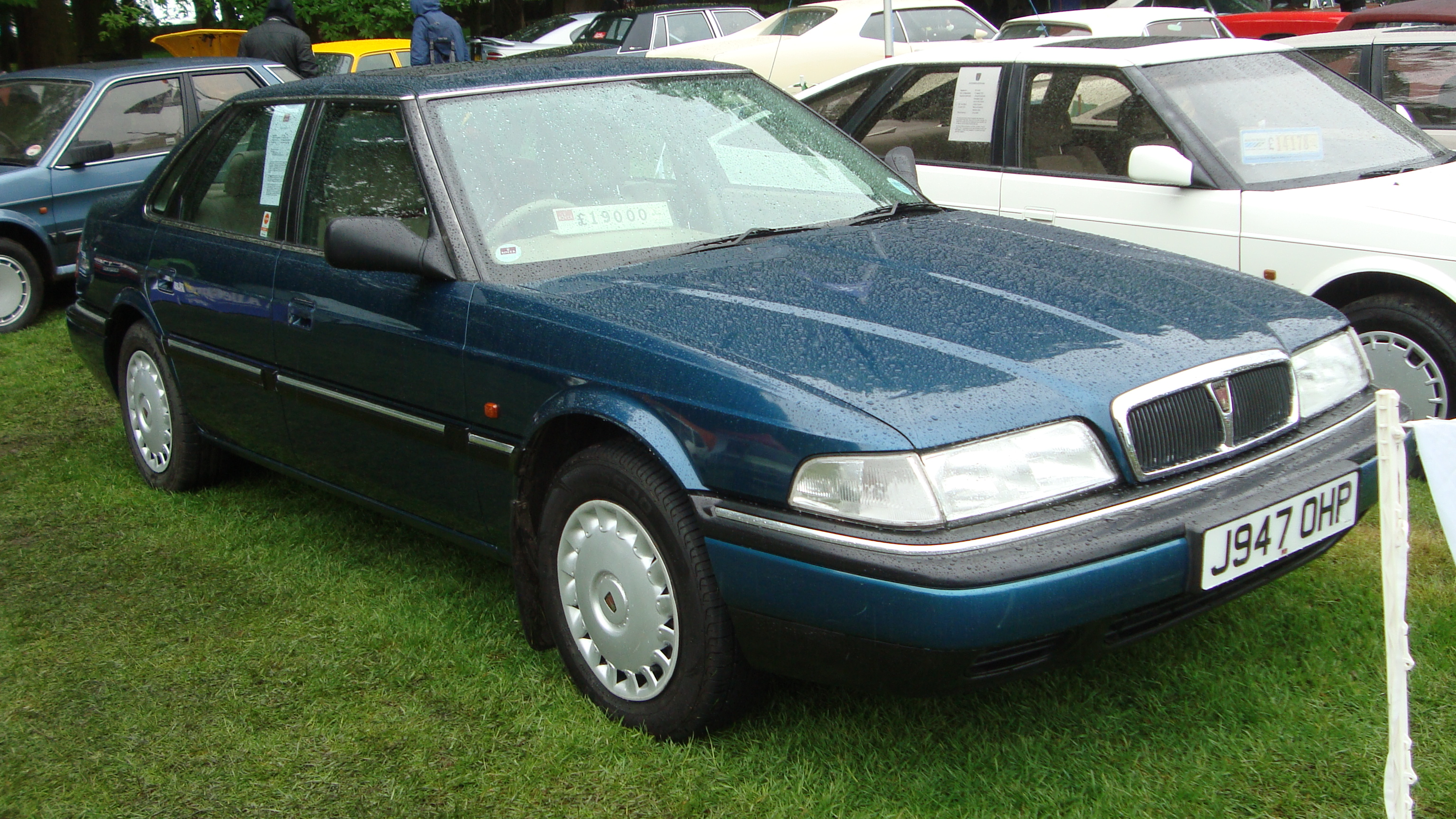 Nice to see this on show. It was first registered on December 17th 1991 and is believed to be the oldest Mk2 800 left